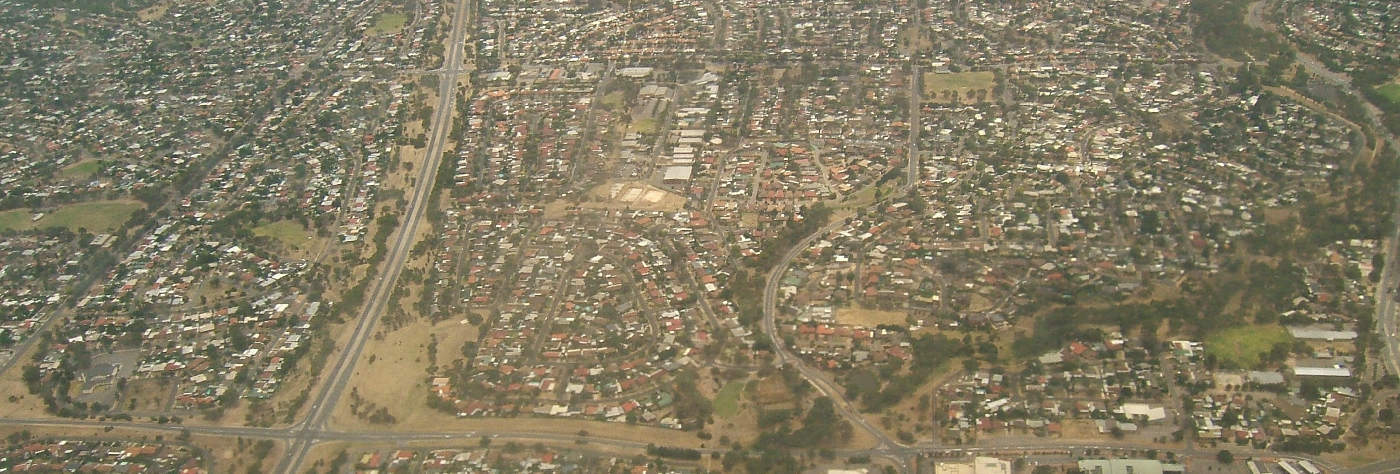 Modbury North, Adelaide